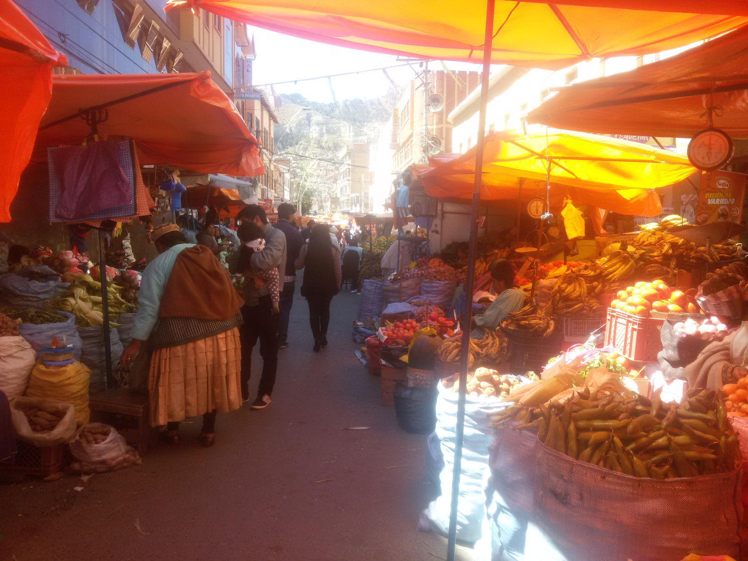 Villa Fátima market in La Paz City (Bolivia).